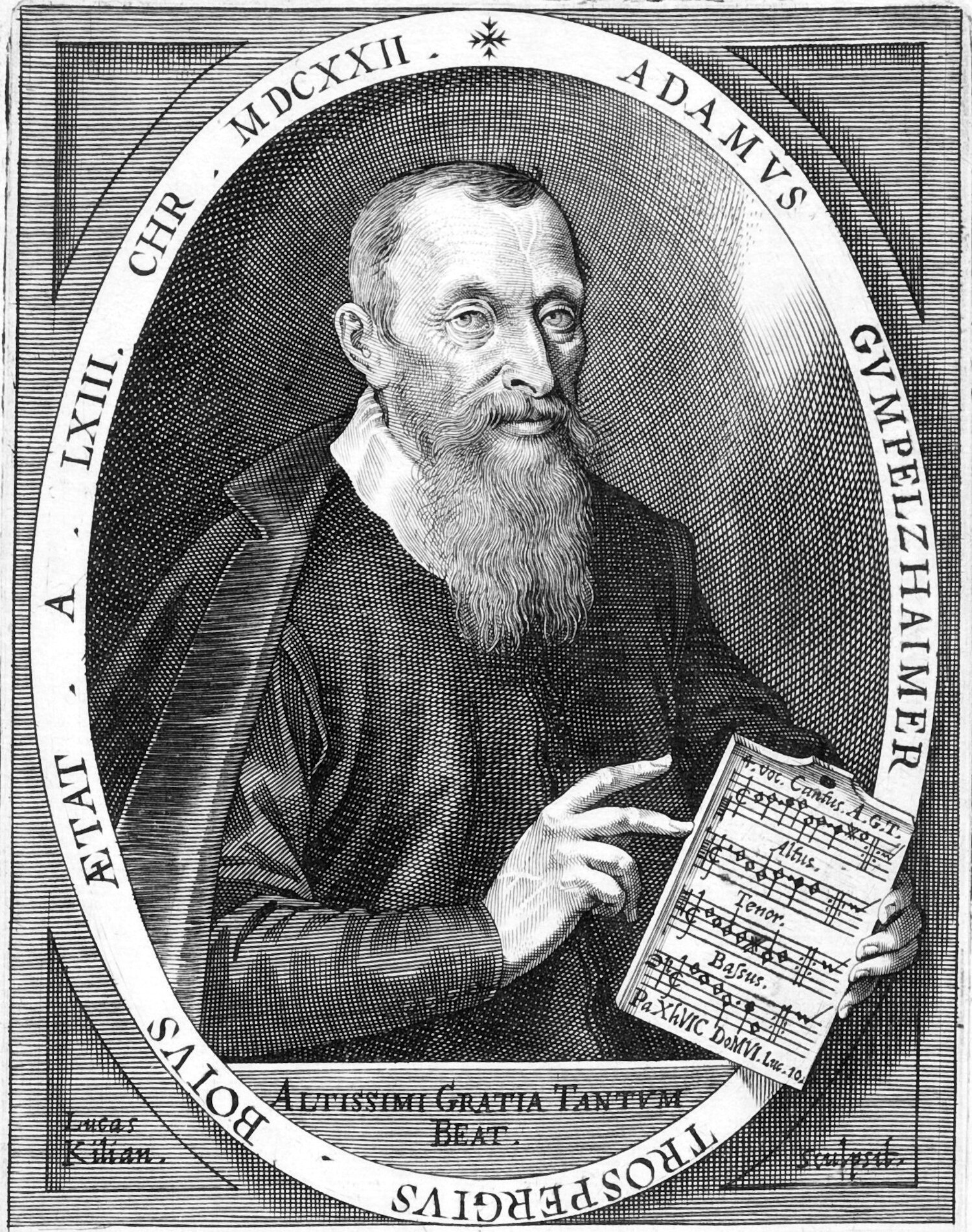 Depicted person: Adam Gumpelzhaimer